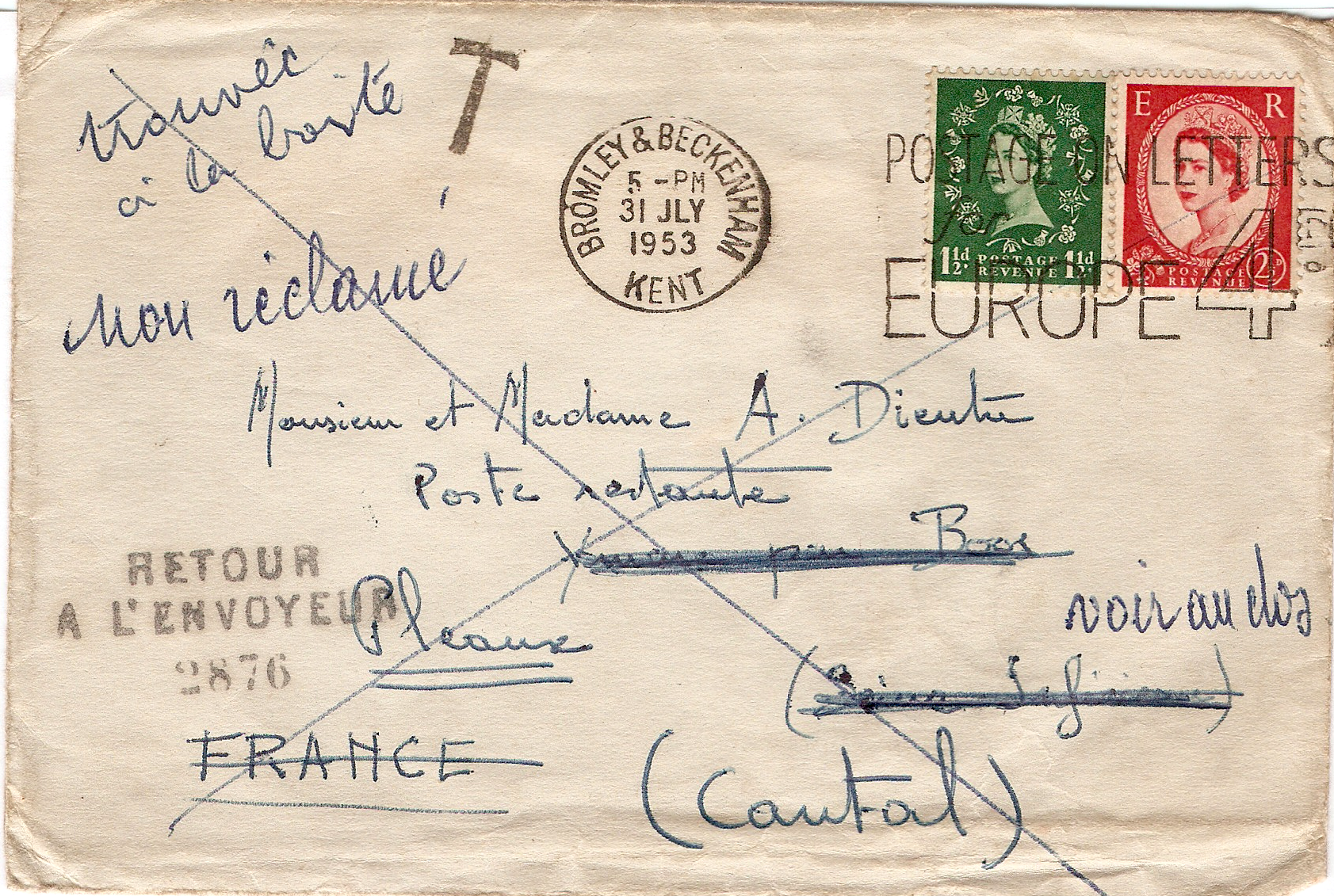 cover form UK to France 1953 with a return mark with "gros chiffres" id. from Pleaux - Cantal